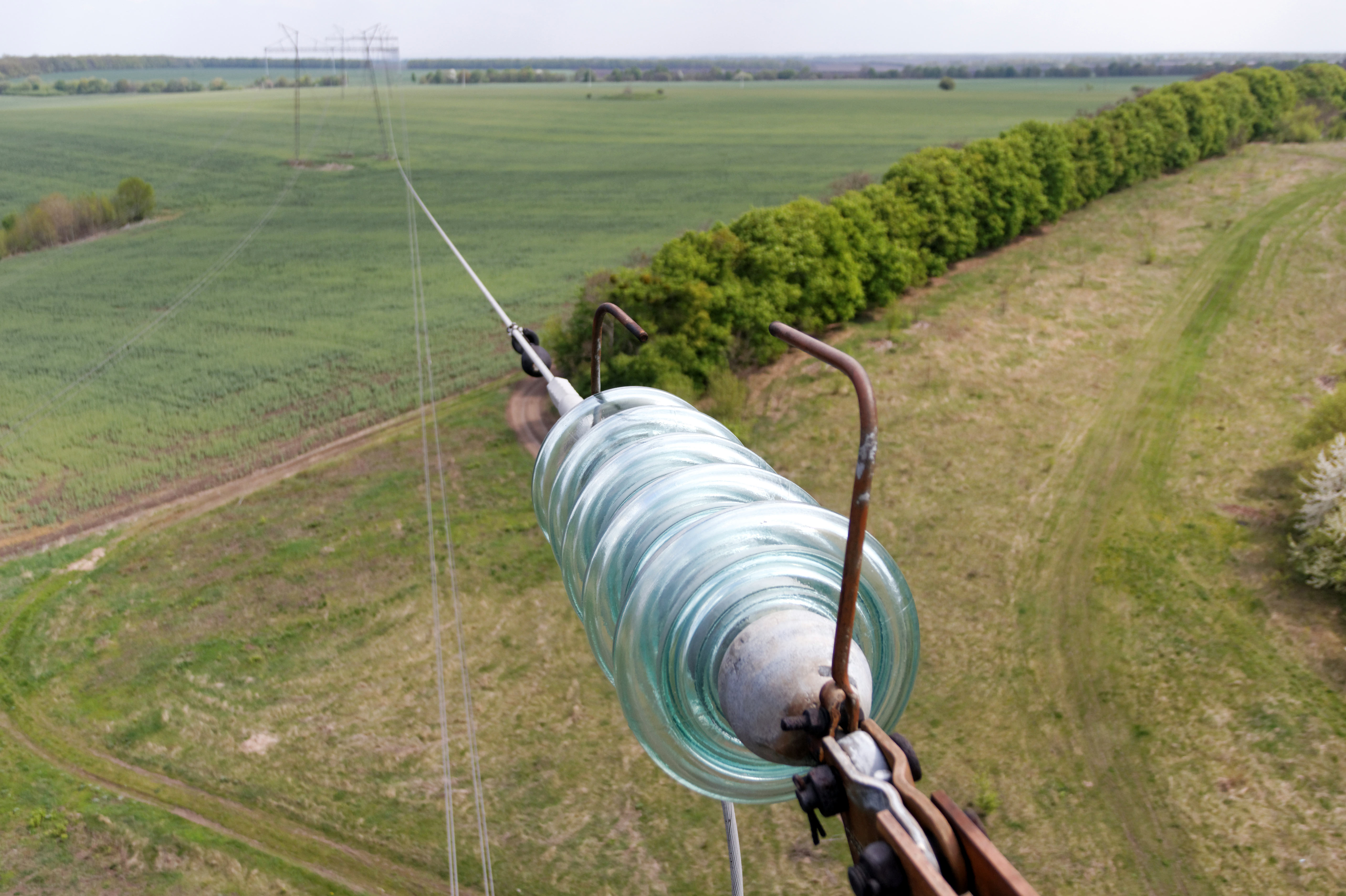 Ground wire fixture on 750kV powerline, Ukraine